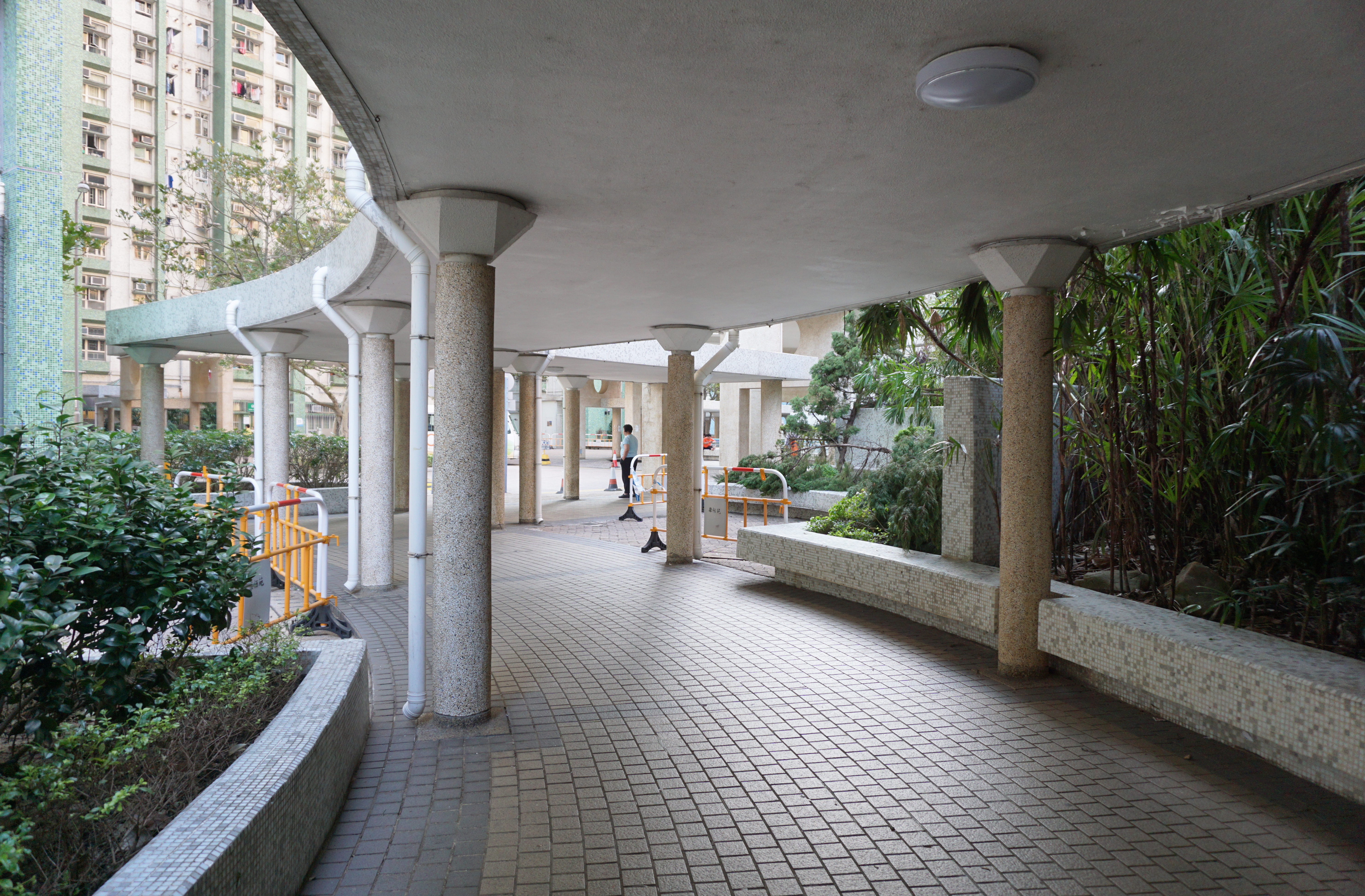 Hong Pak Court in Lam Tin, Hong Kong.